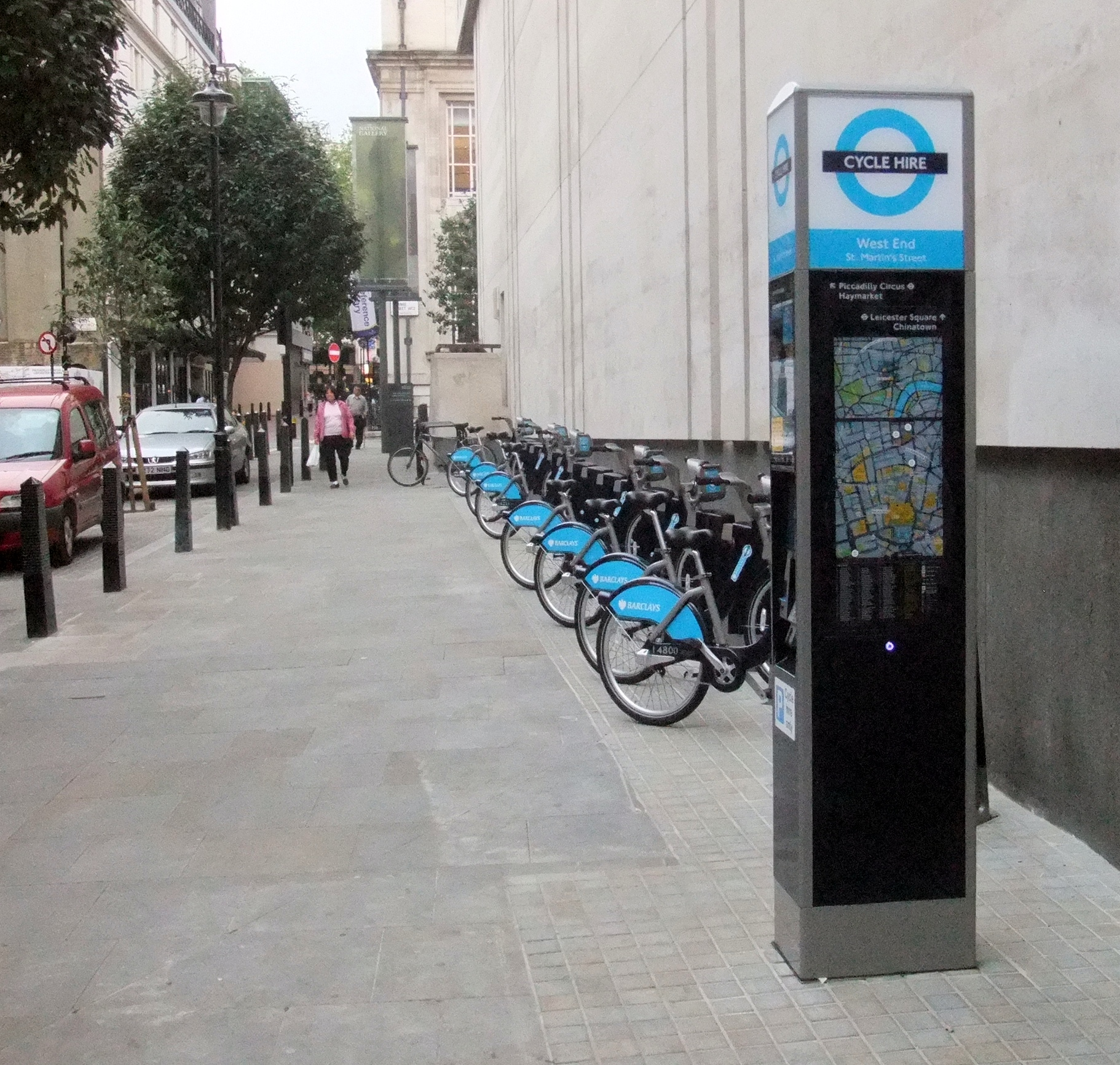 A typical bike stand